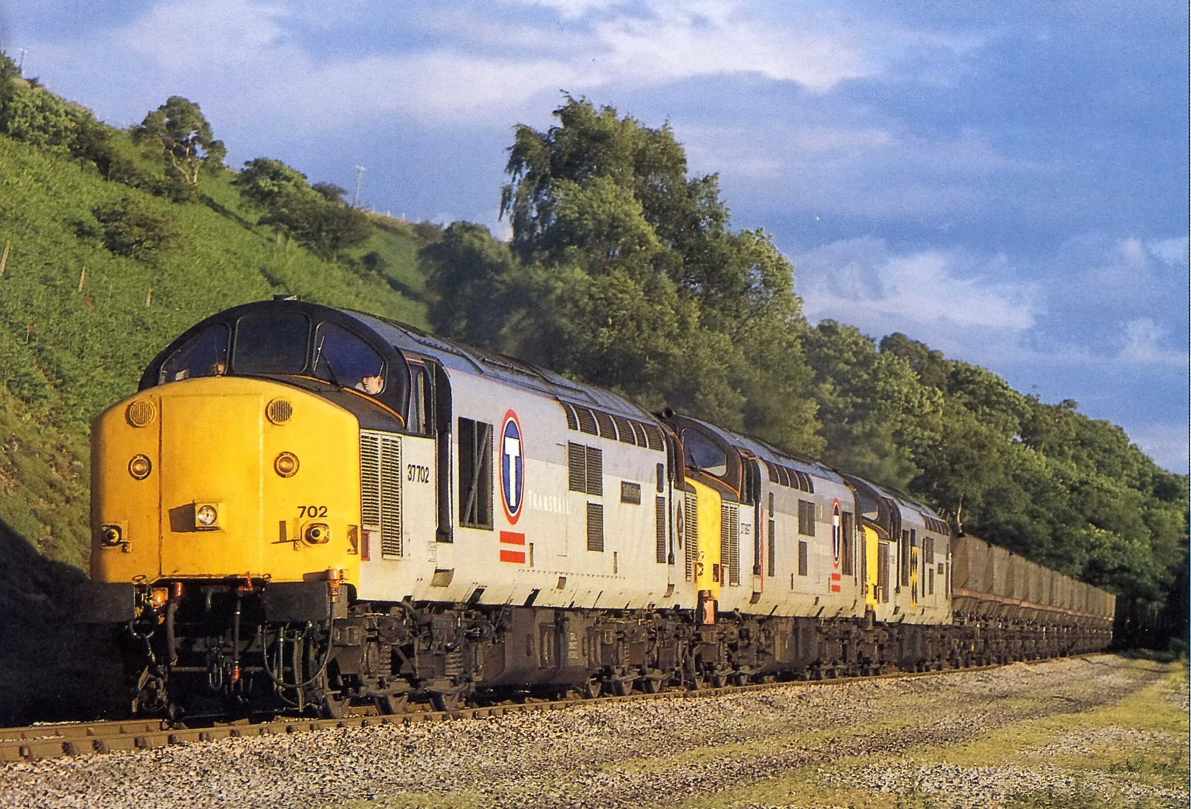 Canon A1,Tokina 28-70 zoom Waited for this for 2 hours along with another chap.We were on holiday in Wales and my wife drove me up here and left me to it. It was in among some holiday phots and I have just discovered it.